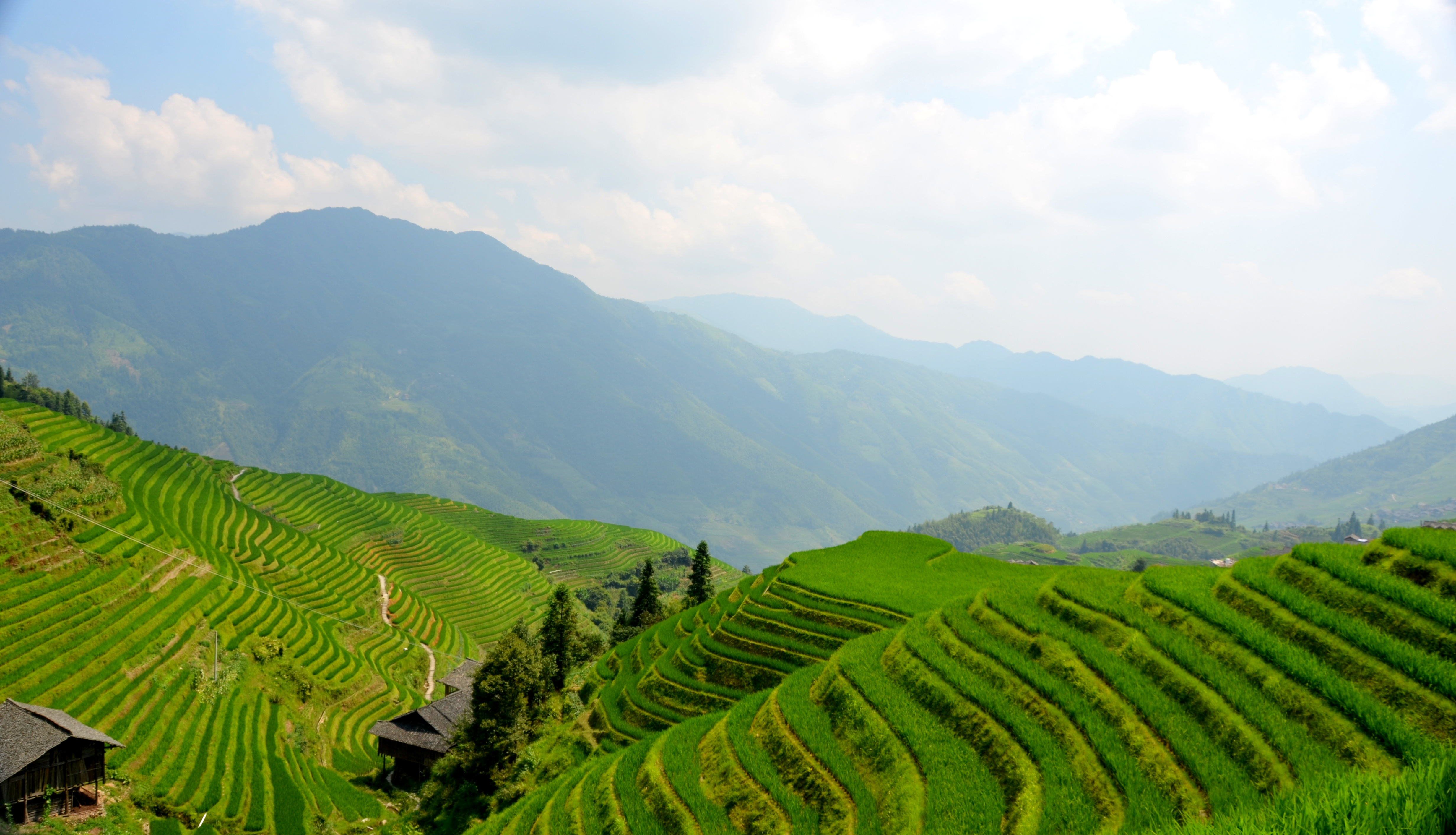 A Longji terrace in Longsheng county, Guilin, China.